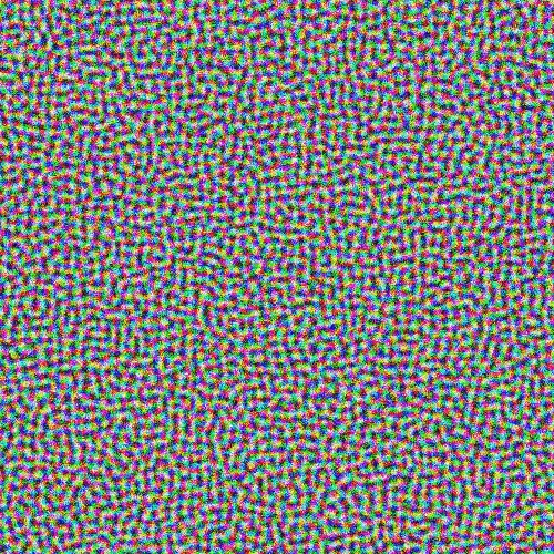 Started with random pixels. Simulated annealing by swapping pairs of pixels, fast cooling (was probably actually just steepest decent...) Similar colour pixels attract at short range, repel at slightly less short range.